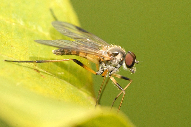 Rhagio lineola from Commanster, Belgian High Ardennes .